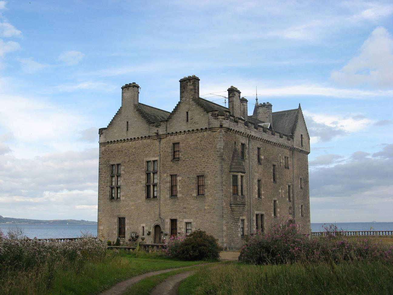 Barnbougle Castle, on the Dalmeny Estate near Edinburgh, Scotland. View from the west.